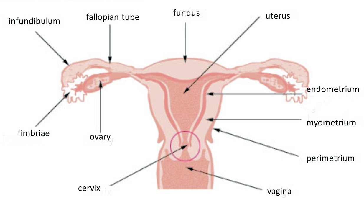 Female reproductive system